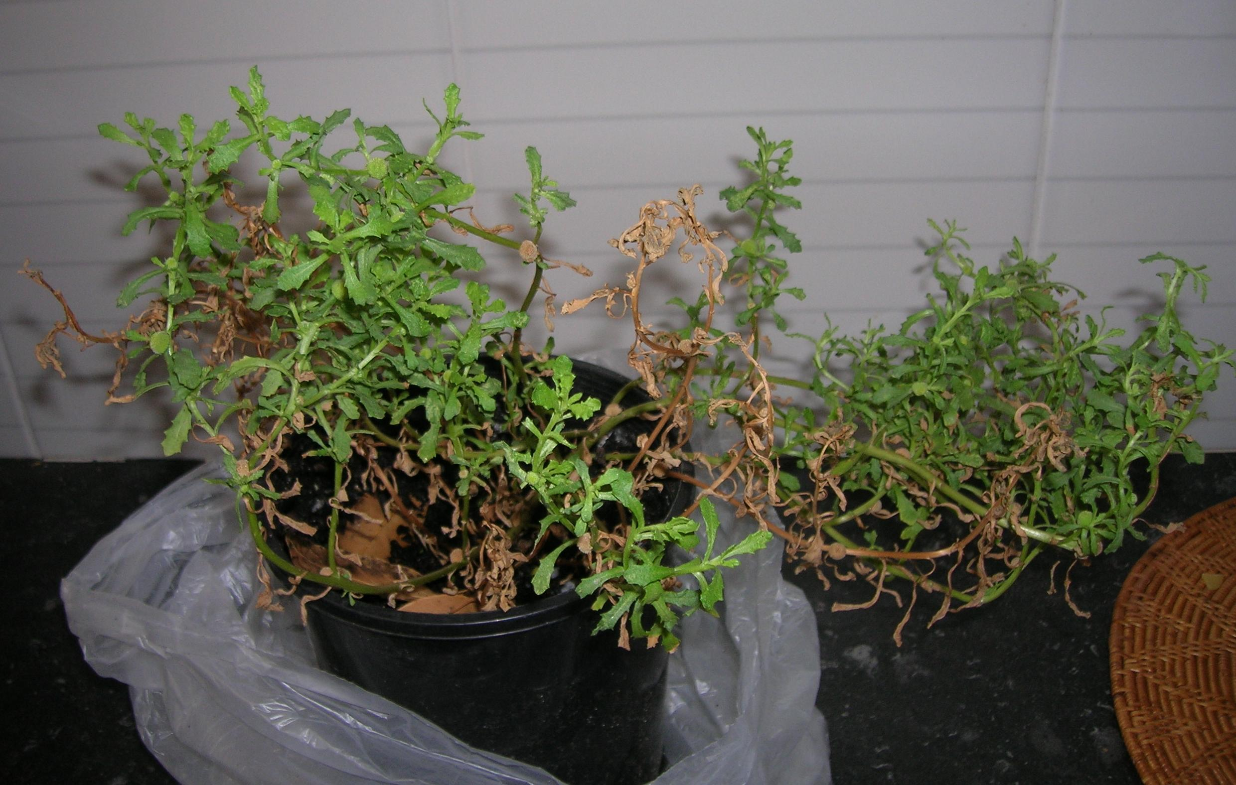 A picture of a potted Old Man Weed plant